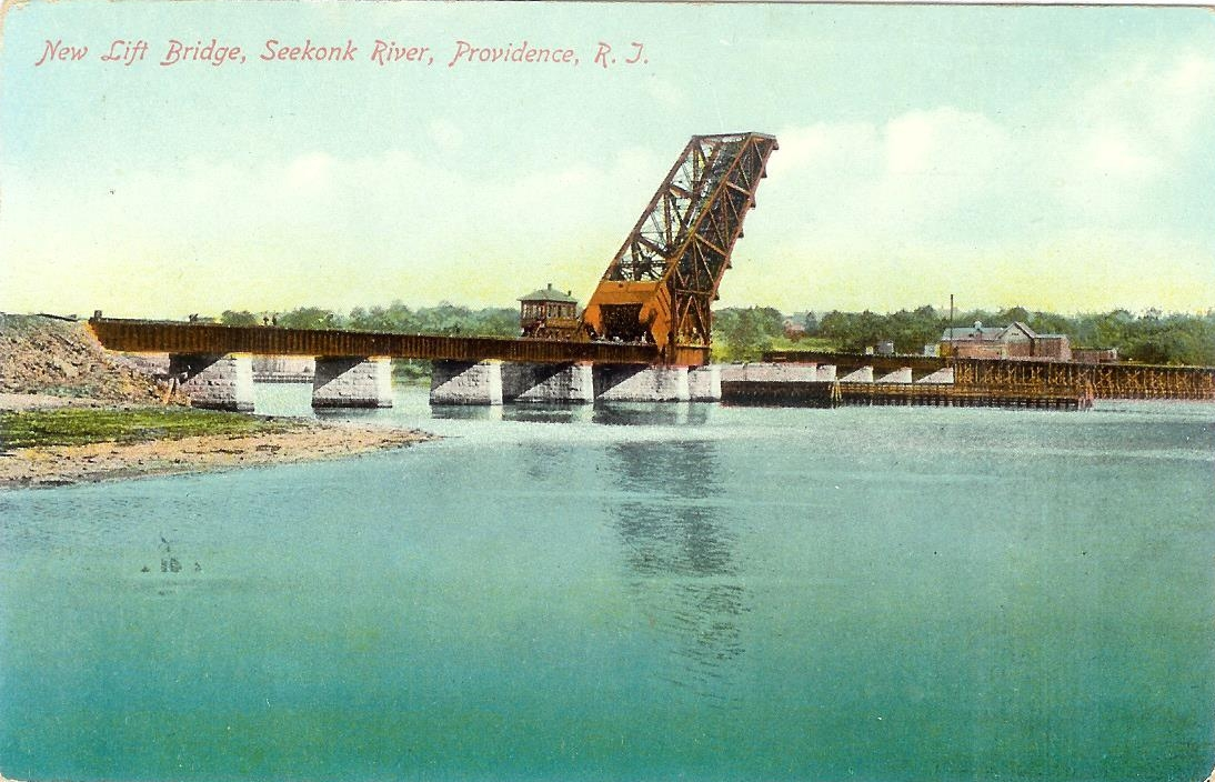 Crook Point Railroad Bridge over the Seekonk River, taken from Providence, Rhode Island looking northeast